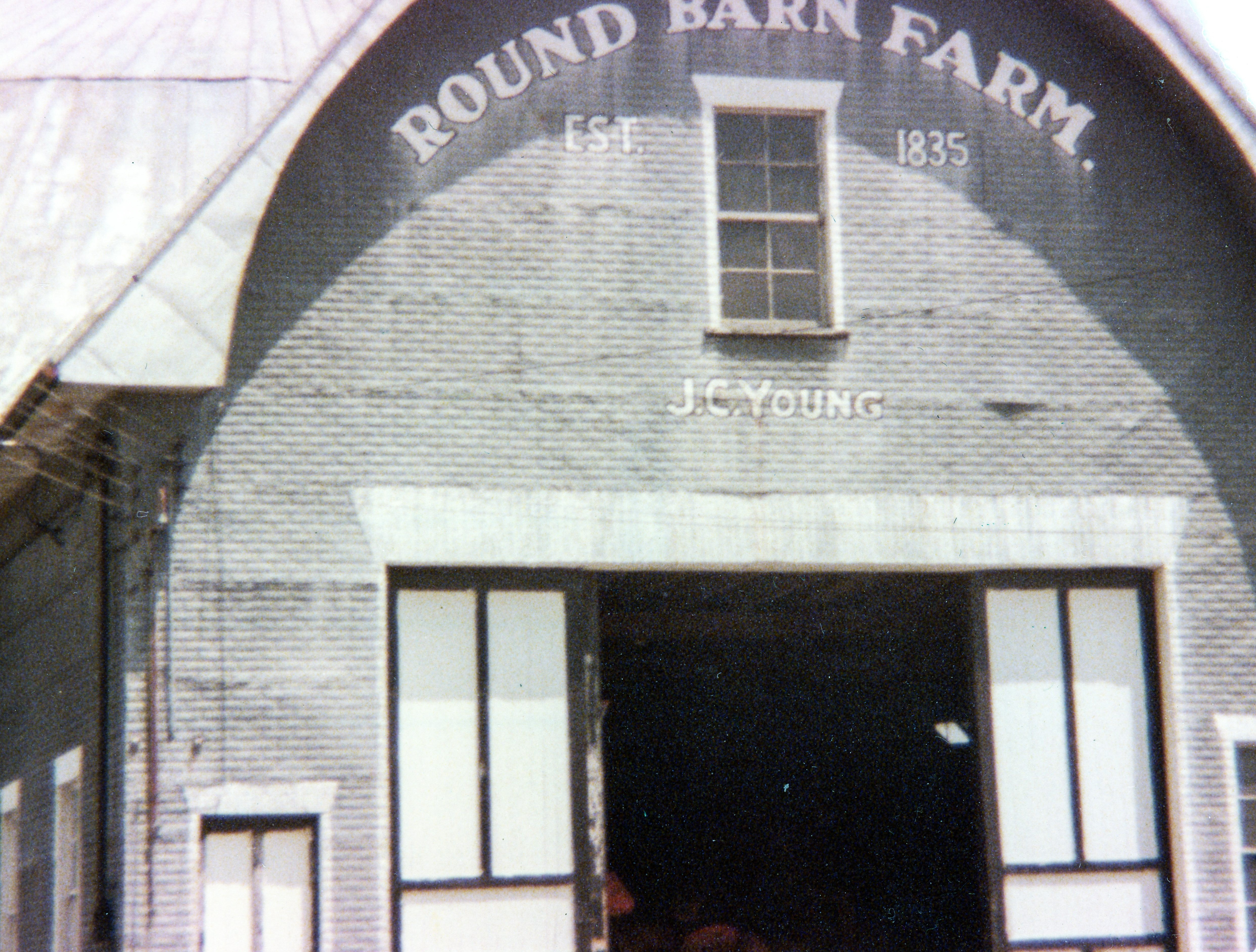 James Clifford Young's farm was located about three miles south of Greene, New York - closeup